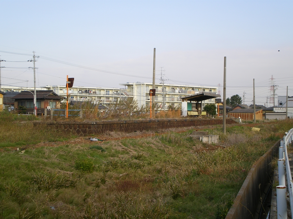 Nagoya Railroad Mikawa Line Mikawa Asahi (Abandoned) Station